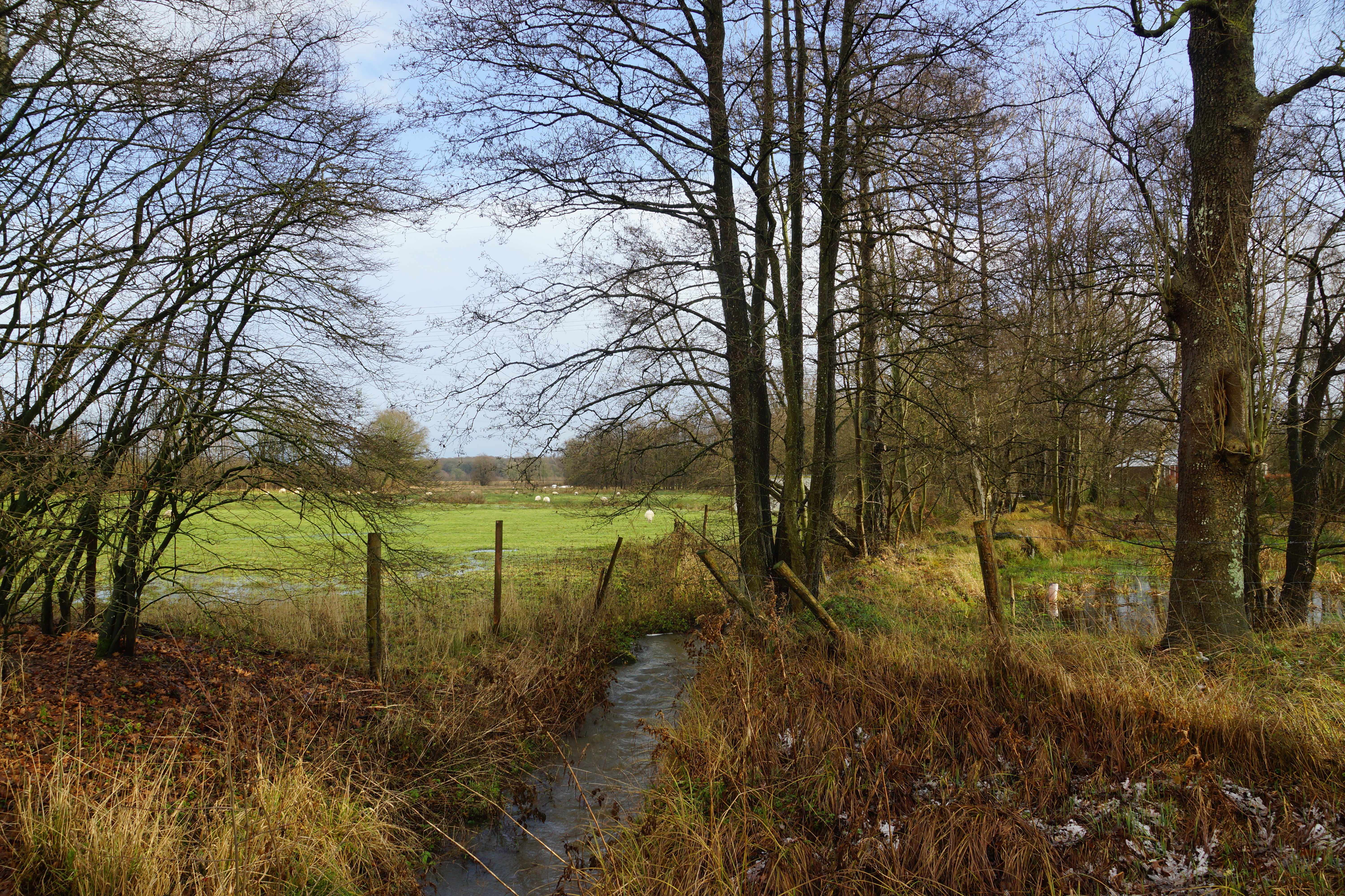 Oersdorf (Oersrdorf), Germany: Kattenbek